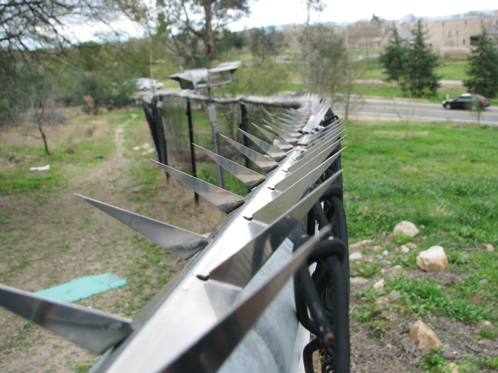 Gold Base, Rehabilitation Project Force housing